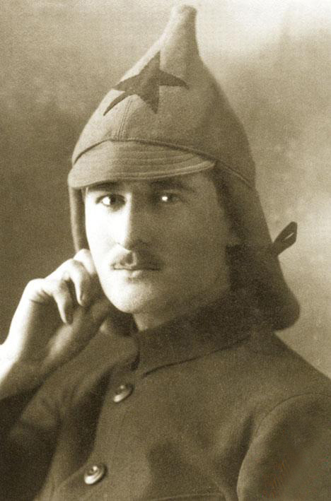 Vasily Sokolovsky in Military Academy Moscow (1919 to 1920).